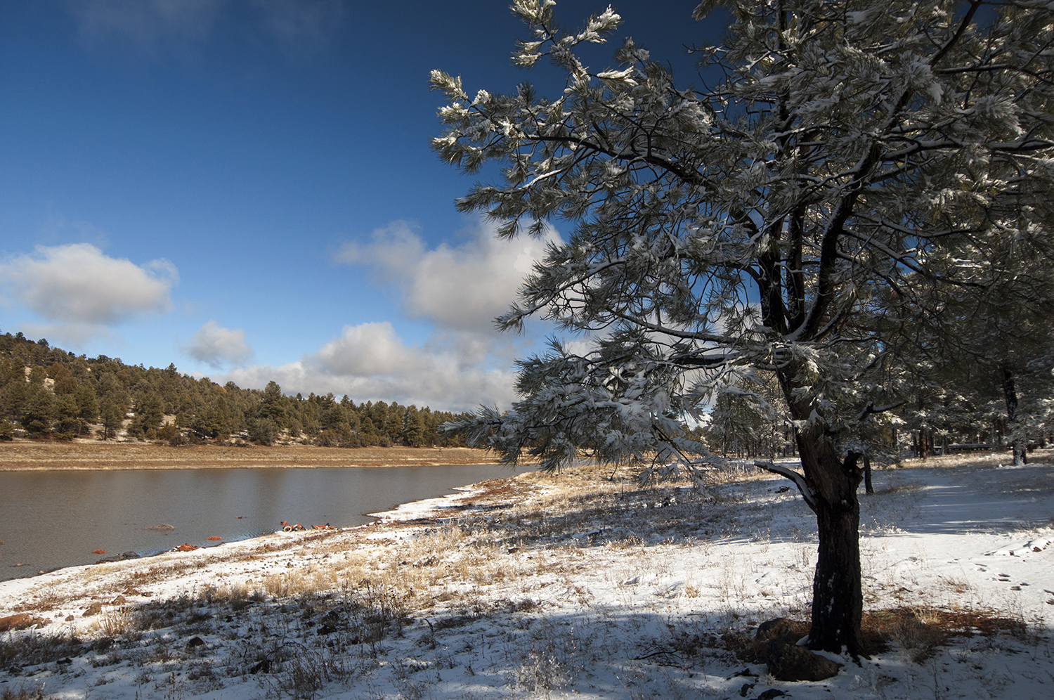 Williams Ranger District. 1-13-15. Photo by Dyan Bone. Credit the U.S. Forest Service, Southwestern Region, Kaibab National Forest.